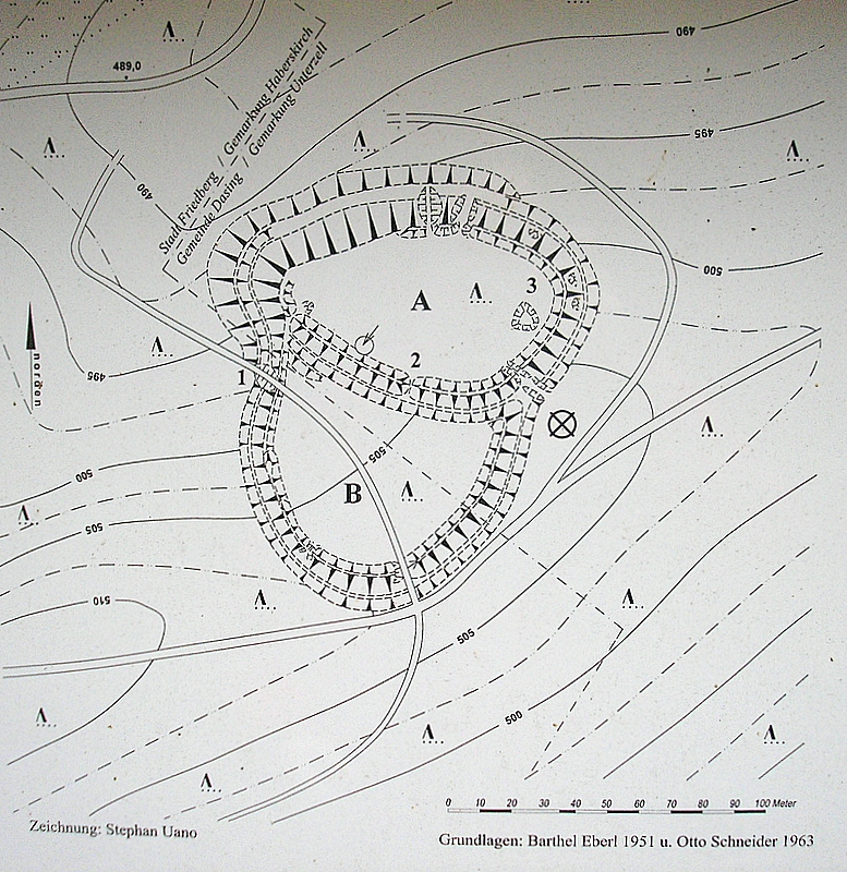 Early middle age ringwork "Kirchholz" near Haberskirch and Dasing (Bavaria, Germany). Plan (Information board in front of the ringwork).